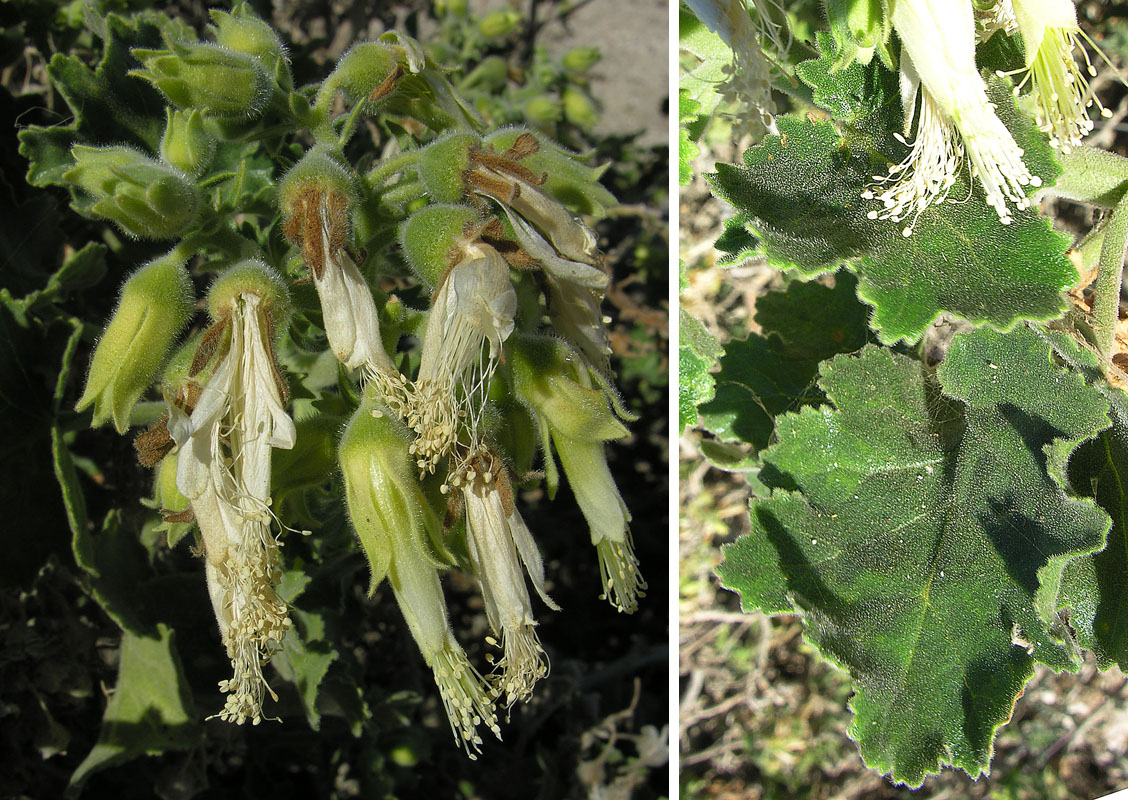 The Baja California Rock Nettle is found in northwestern Mexico, here to north of the town of Todos Santos. As the local name Pega-pega would suggest, this resinous weed is better known for its stickyness than for its sting.